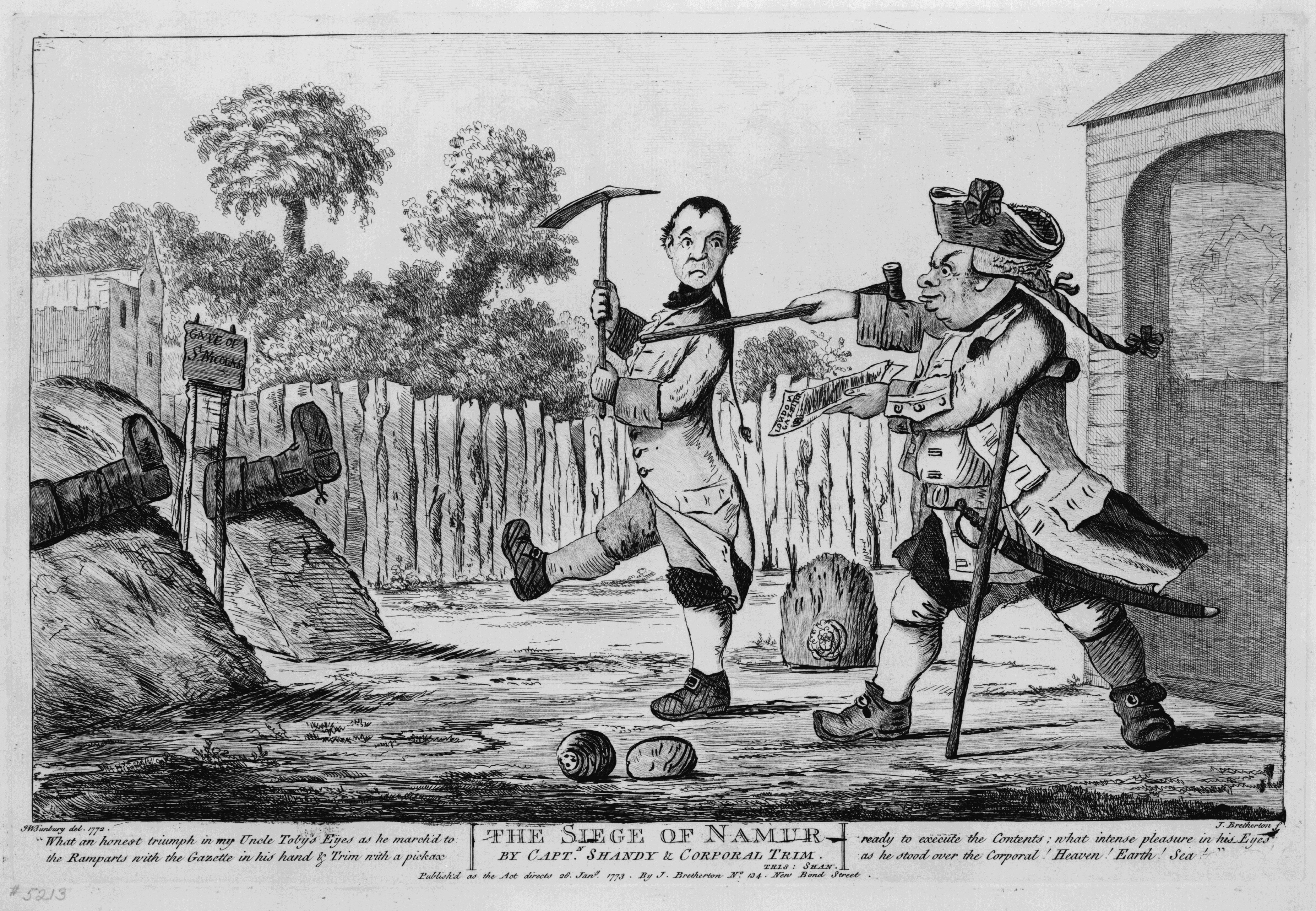 The siege of Namur by Captn. Shandy & Corporal Trim. One of a series of illustrations to Laurence Sterne's Tristram Shandy showing Uncle Toby marching, with crutch under his left arm, pointing with his right crutch towards the fortifications built on the bowling green, where the gate of St. Nicolas is flanked on each side by a jack-boot. In his left hand he holds the London Gazette. Trim, holding up a pickaxe, marches in front of his master. Shandy Hall appears behind the Gate of St. Nicolas. Creator: Henry William Bunbury, 1750-1811, engraver. Publish'd as the act directs 26 Jany. 1773 by J. Bretherton, London. Repository: British cartoon collection (Library of Congress). Public Domain.